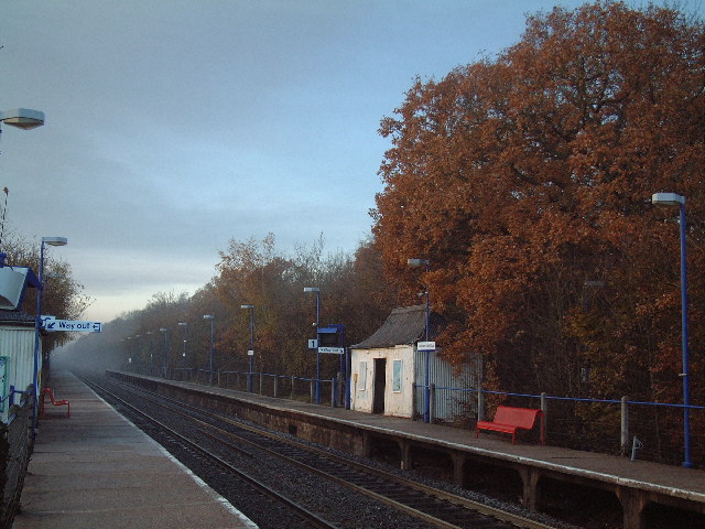 Denham Golf Club Station. This unmanned station on the Chiltern Line serves several residential roads within the immediate vicinity and takes its name from the golf club just a few hundred metres to the north east.